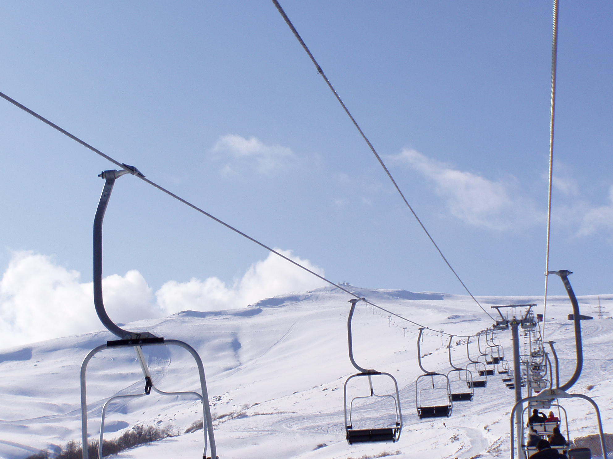 Mount Teghenis, vertical drop 850m/2,790ft.